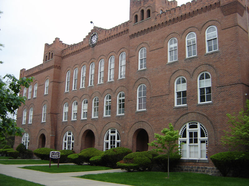 The Prep Building at St. Mary's Preparatory, Orchard Lake, Michigan. Built in 1890, it once was the main school building for the Michigan Military Academy.